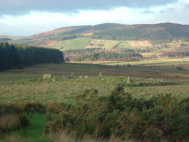 The Greater Stone Circle, Eslie By Knock Wood, with Scolty Hill (299m) in the background.